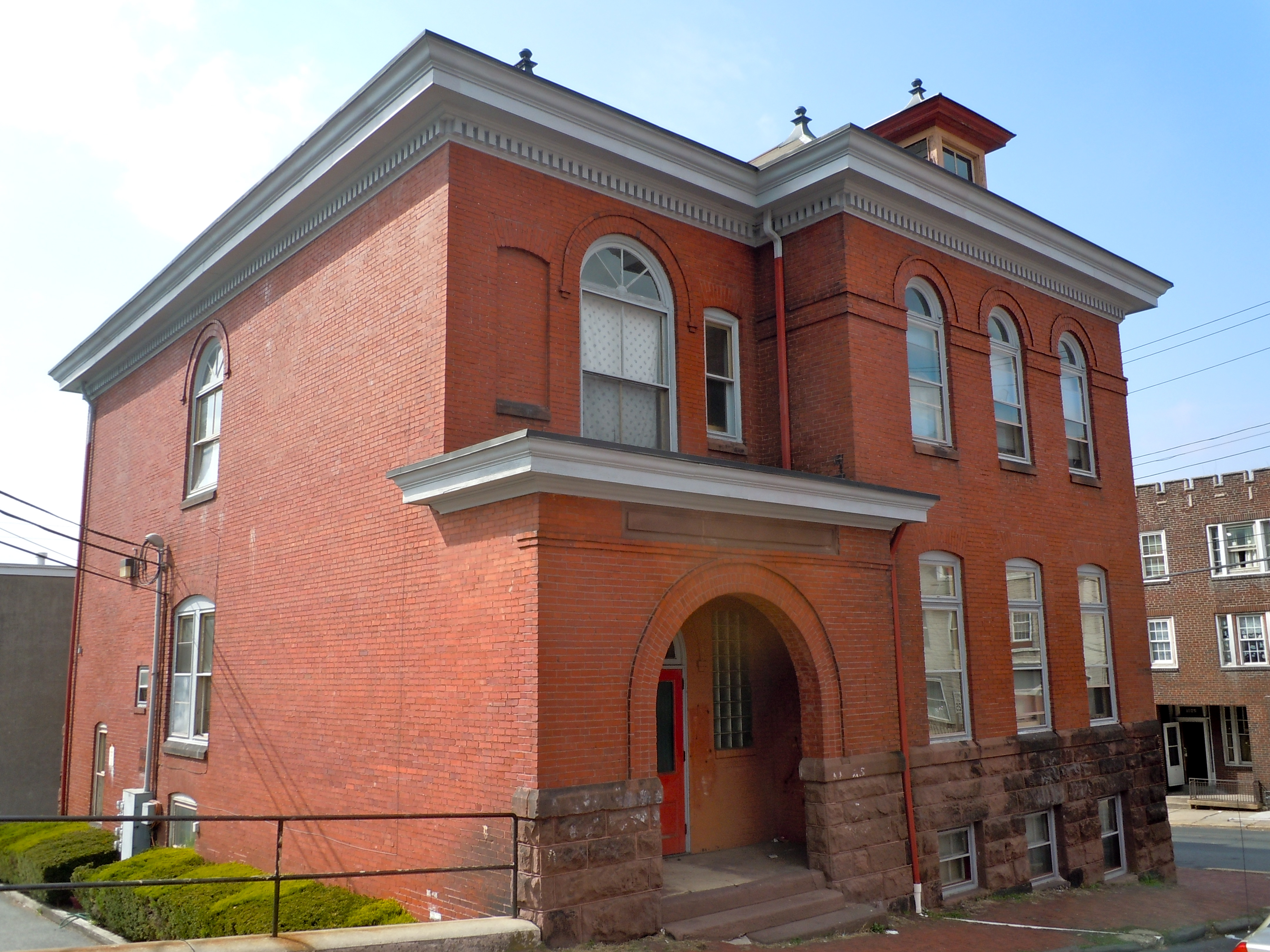 Cotton and Maple Streets School on the NRHP since July 17, 1986. Locateed on the corner of Cotton and Maple Streets, Reading, Berks County, Pennsylvania. Now apparently used as a house